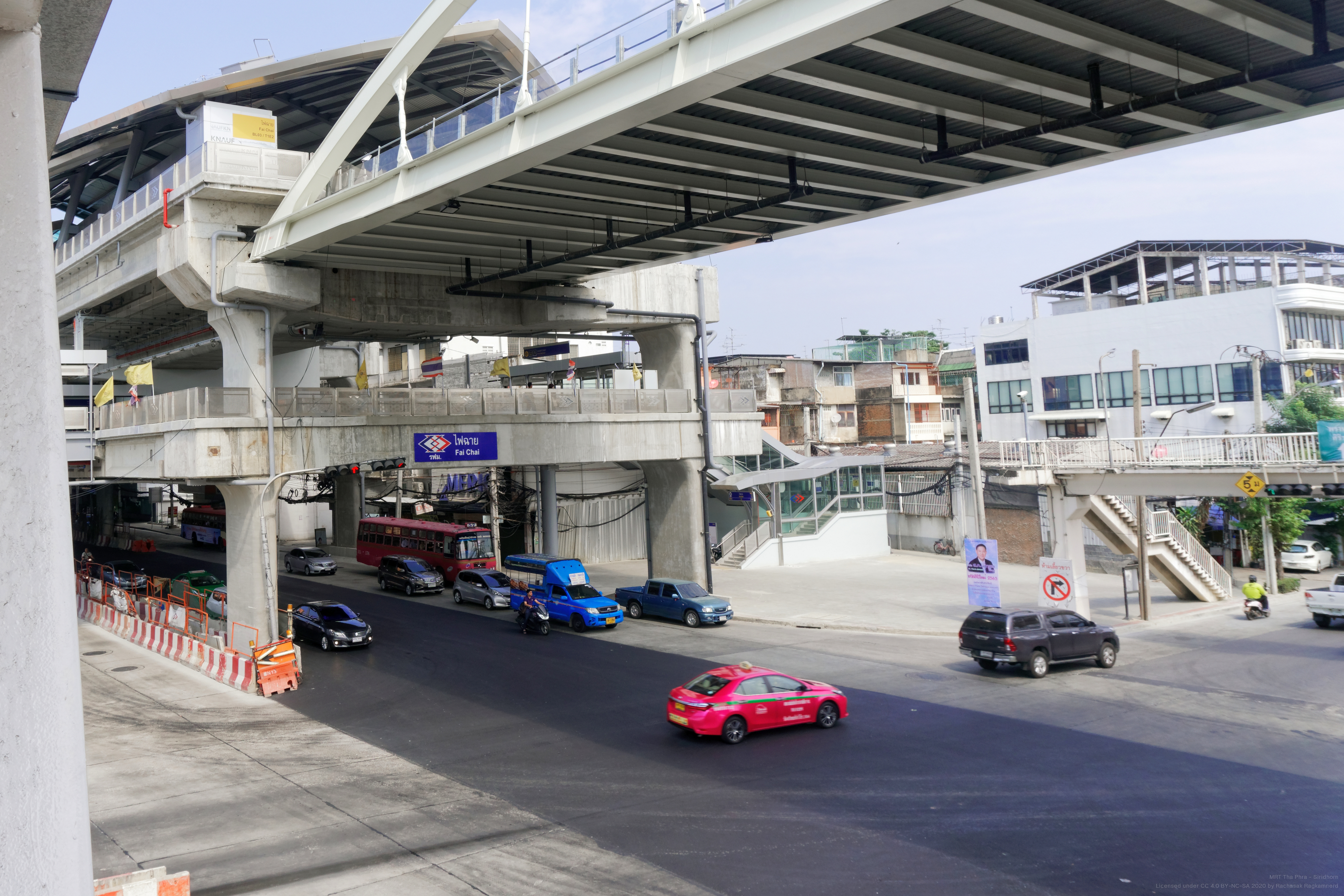 MRT Fai Chai – Station – with junction